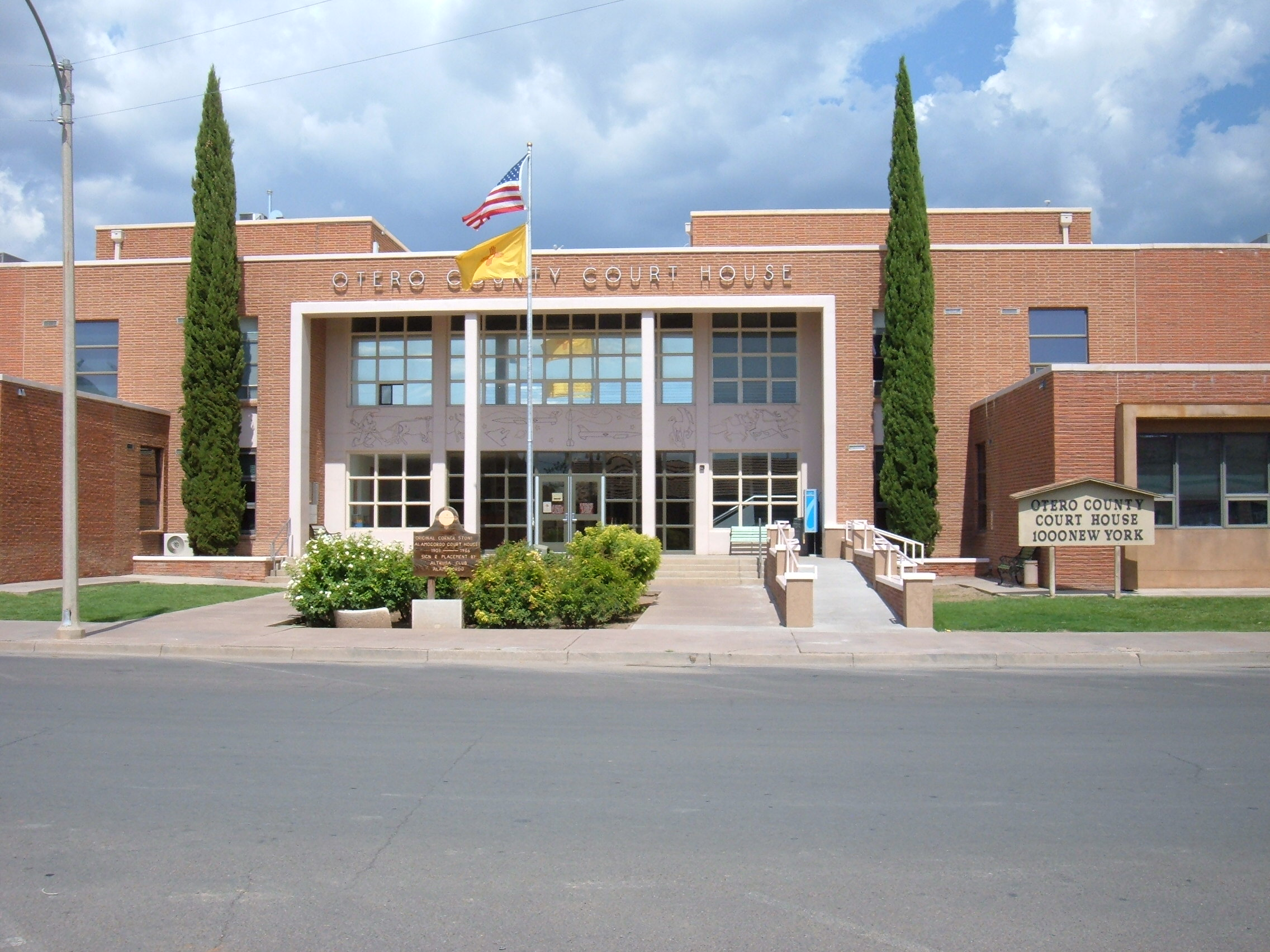 Otero County Court House, located in Alamogordo, New Mexico at 1000 New York Avenue.